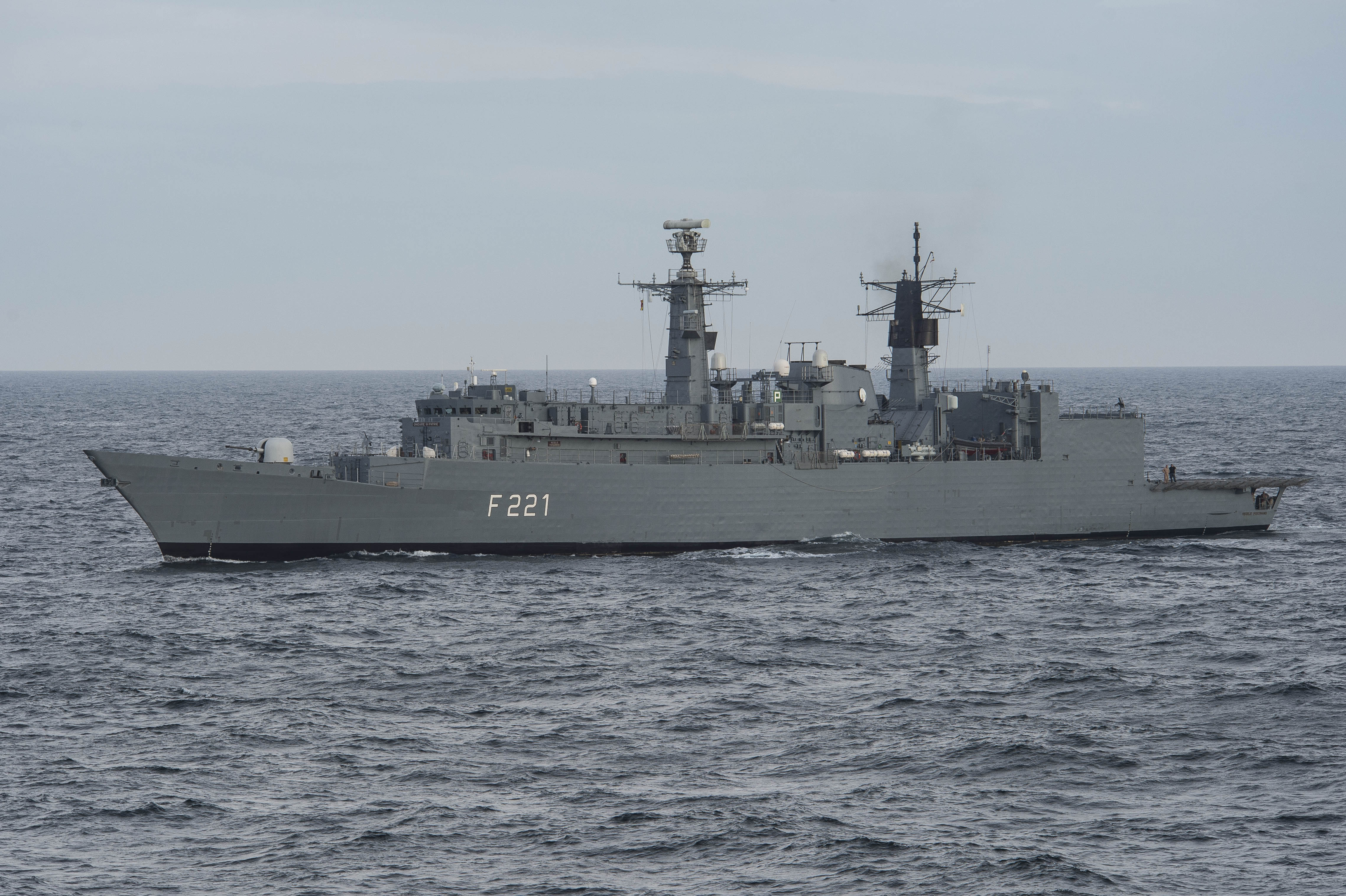 The Romanian Navy frigate Regele Ferdinand (F-221) approaches the U.S. Navy guided-missile destroyer USS Cole (DDG-67), not visible, during a passing exercise in the Black Sea.